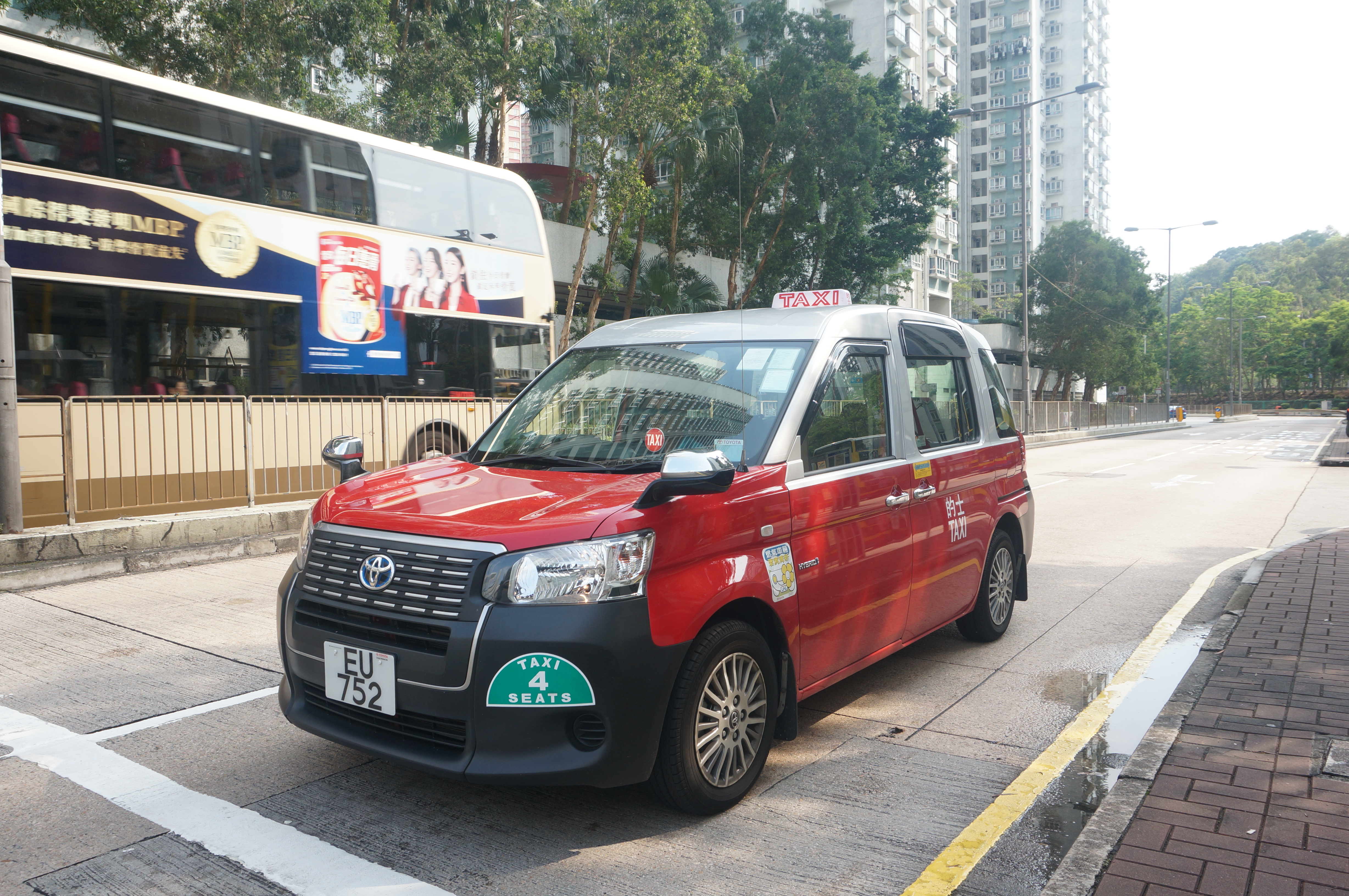 Taxis in Hong Kong